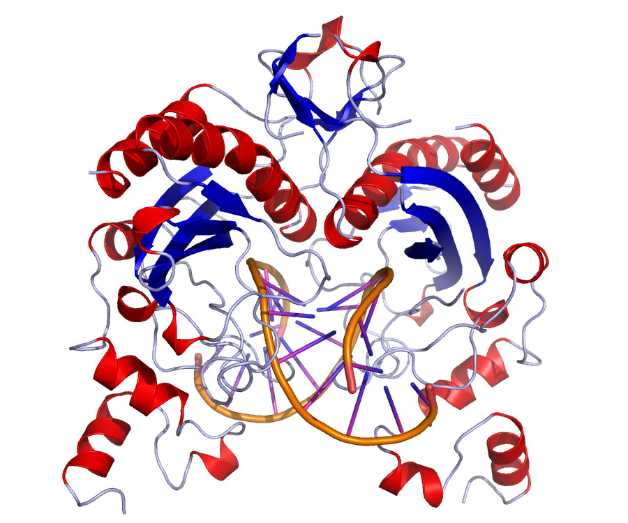 Solution structure of EcoRV as published in the Protein Data Bank (PDB: 1AZ0)